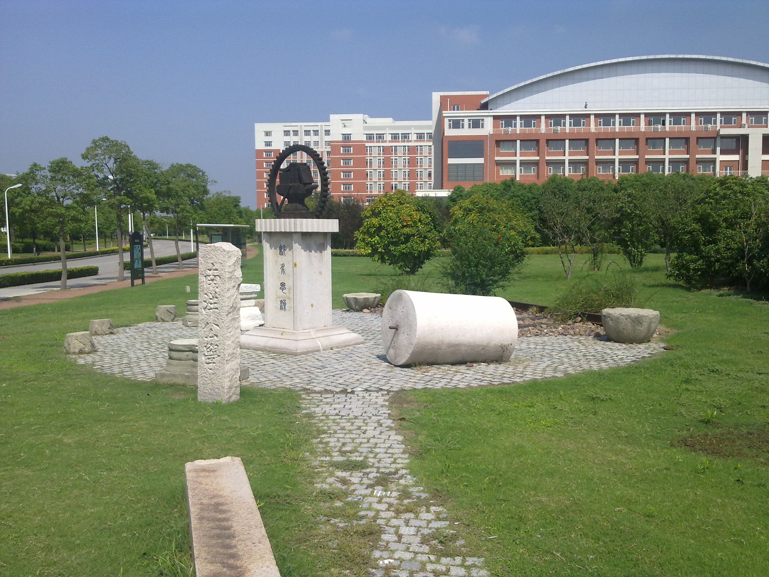 Replica of SJTU property stone at Minhang Campus